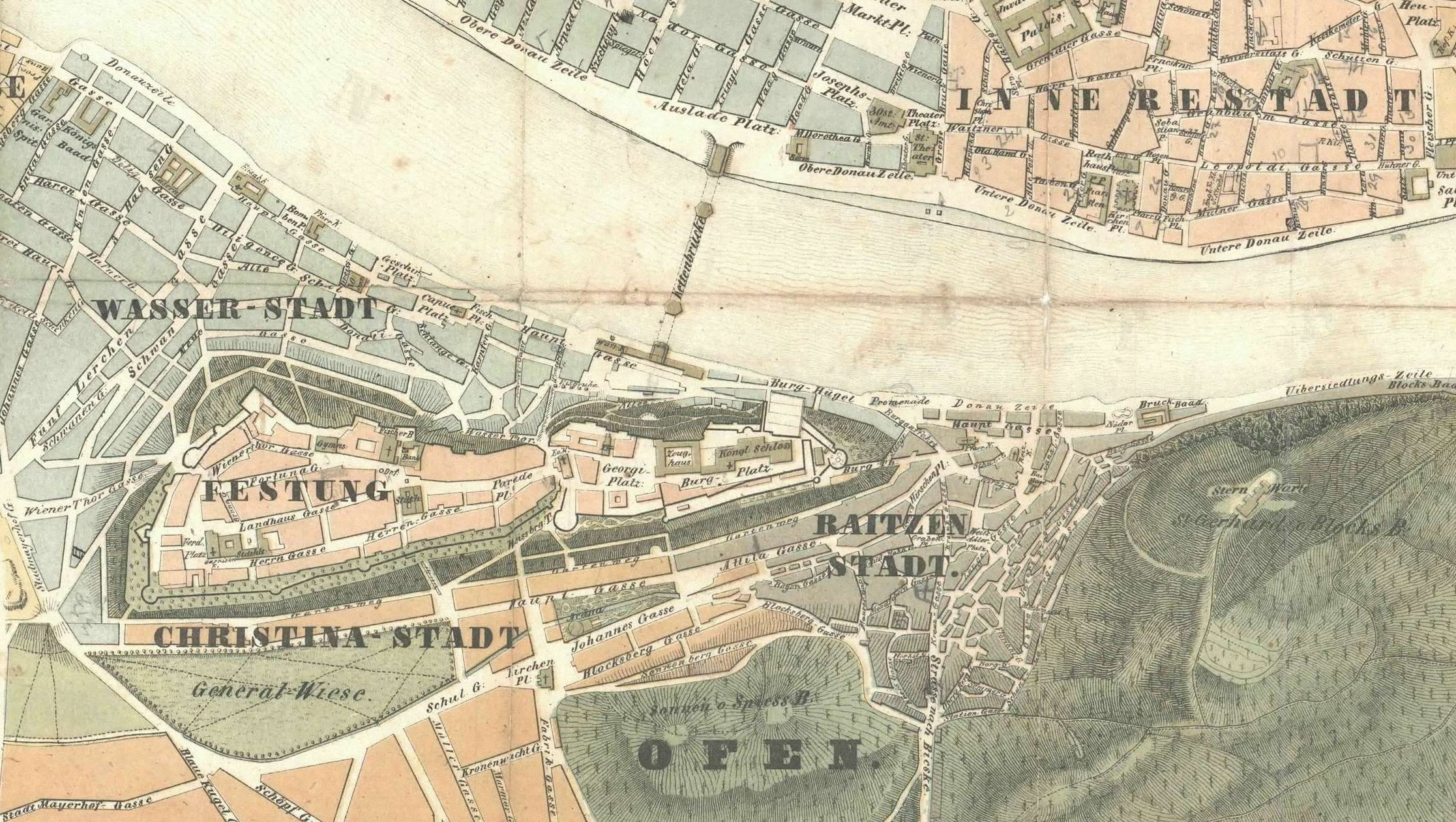 Buda Castle 1850